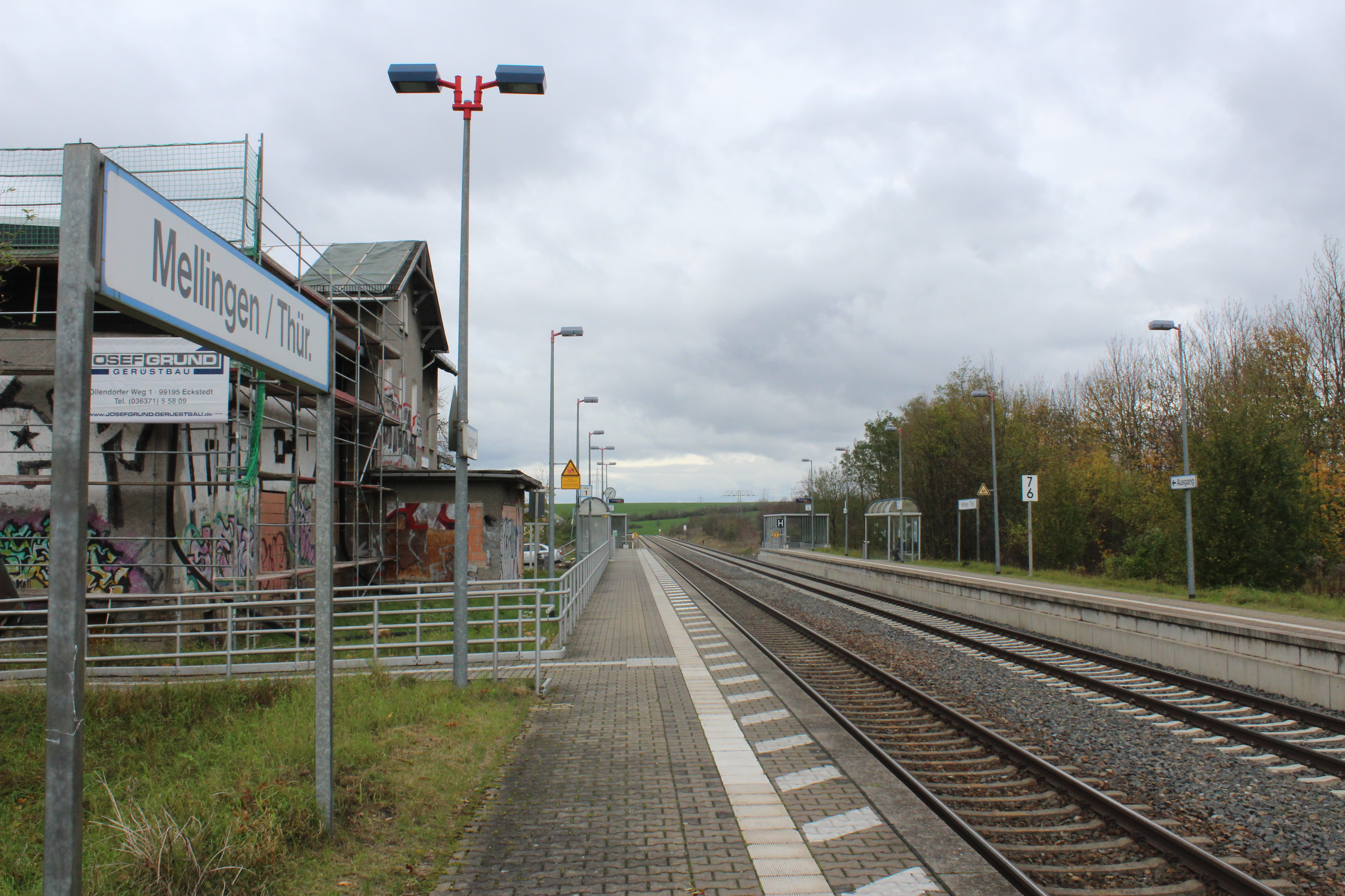 train station Mellingen (Thür), platforms